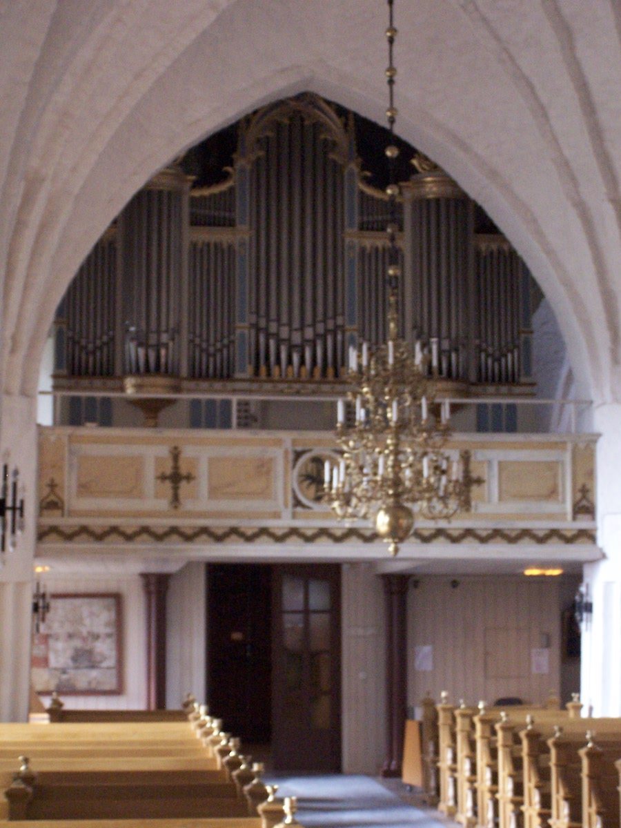 The organ in Sankt Laurentii church in Söderköping, Sweden